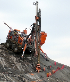 Tamrock Scout Drill Rig